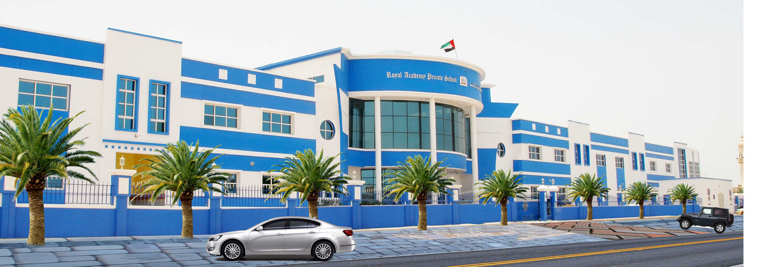 The front view of the school